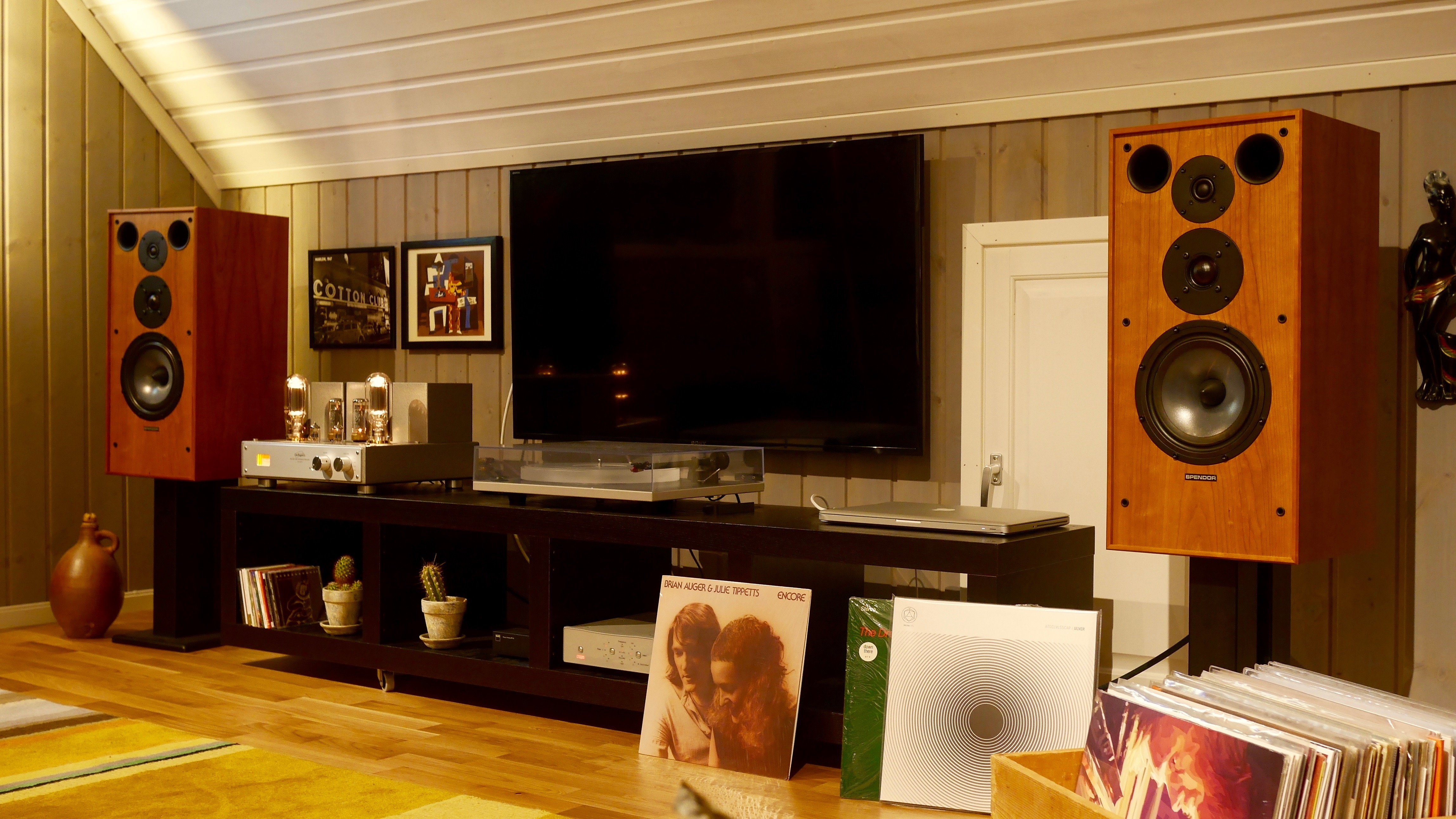 New speakers has arrived. The classic Spendor SP1/2R2.